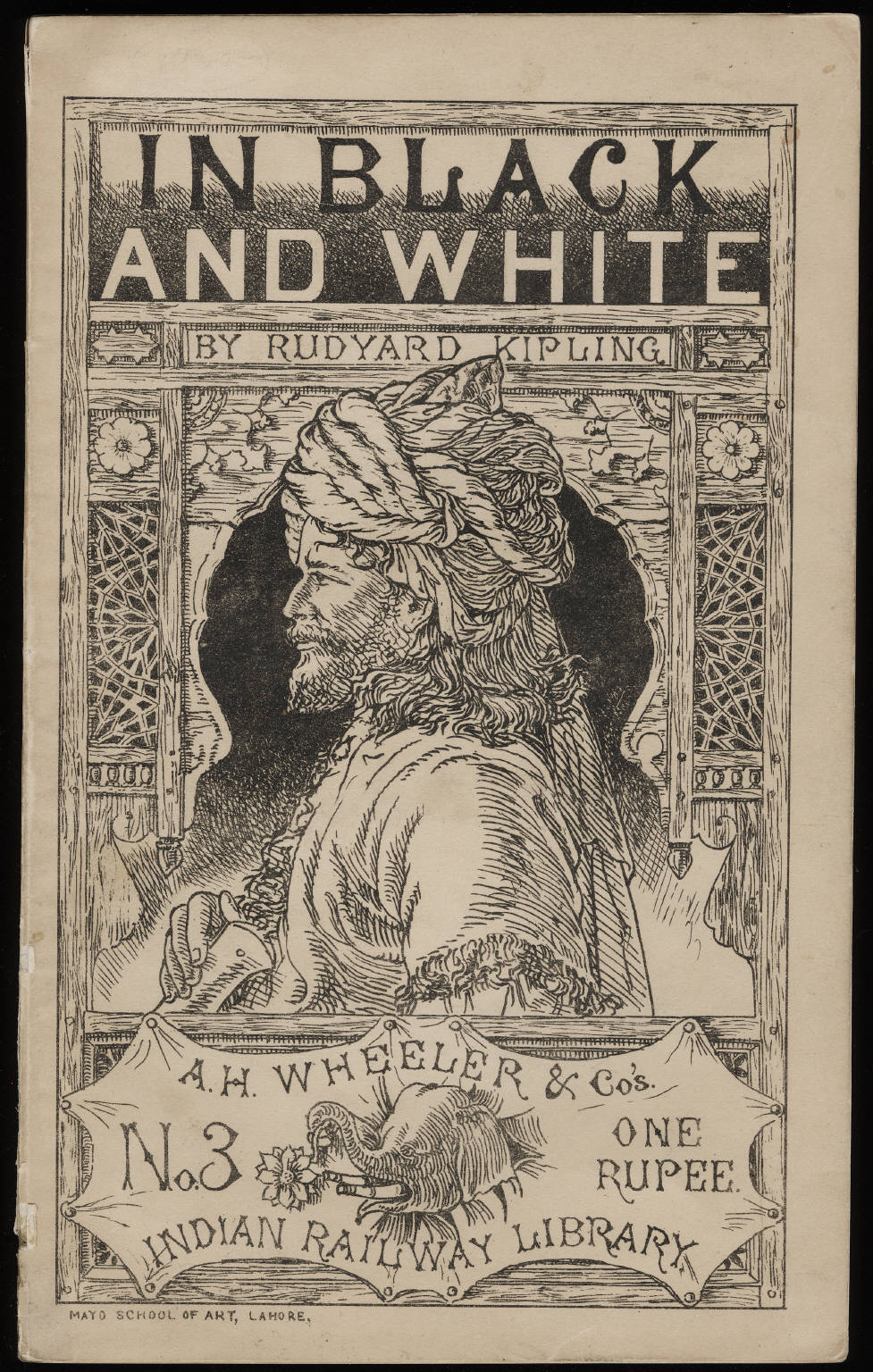 "In Black and White," cover of collection of short stories by writer Rudyard Kipling, published by A.H. Wheeler & Co., 1888. Carries a cover price of one rupee.